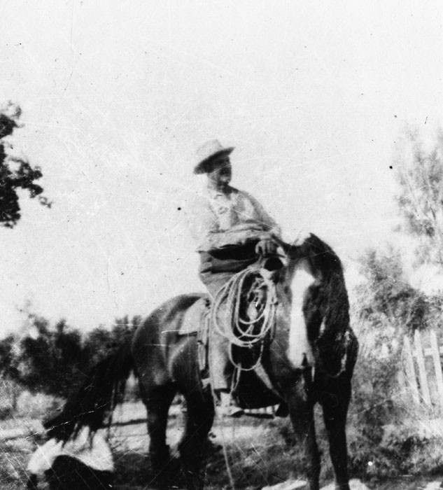 Photographic portrait of Dudley Henry Leavitt (1870-1944), presumably taken at Bunkerville, Clark County, Nevada. Dudley Leavitt was the father of Mormon historian Juanita (Leavitt) Brooks, who donated the photograph to the Utah State Historical Society. Leavitt is pictured riding his horse 'Flax.' 3.5 in. x 4.5 in. Courtesy of the Utah State Historical Society Collection, University of Utah Library.